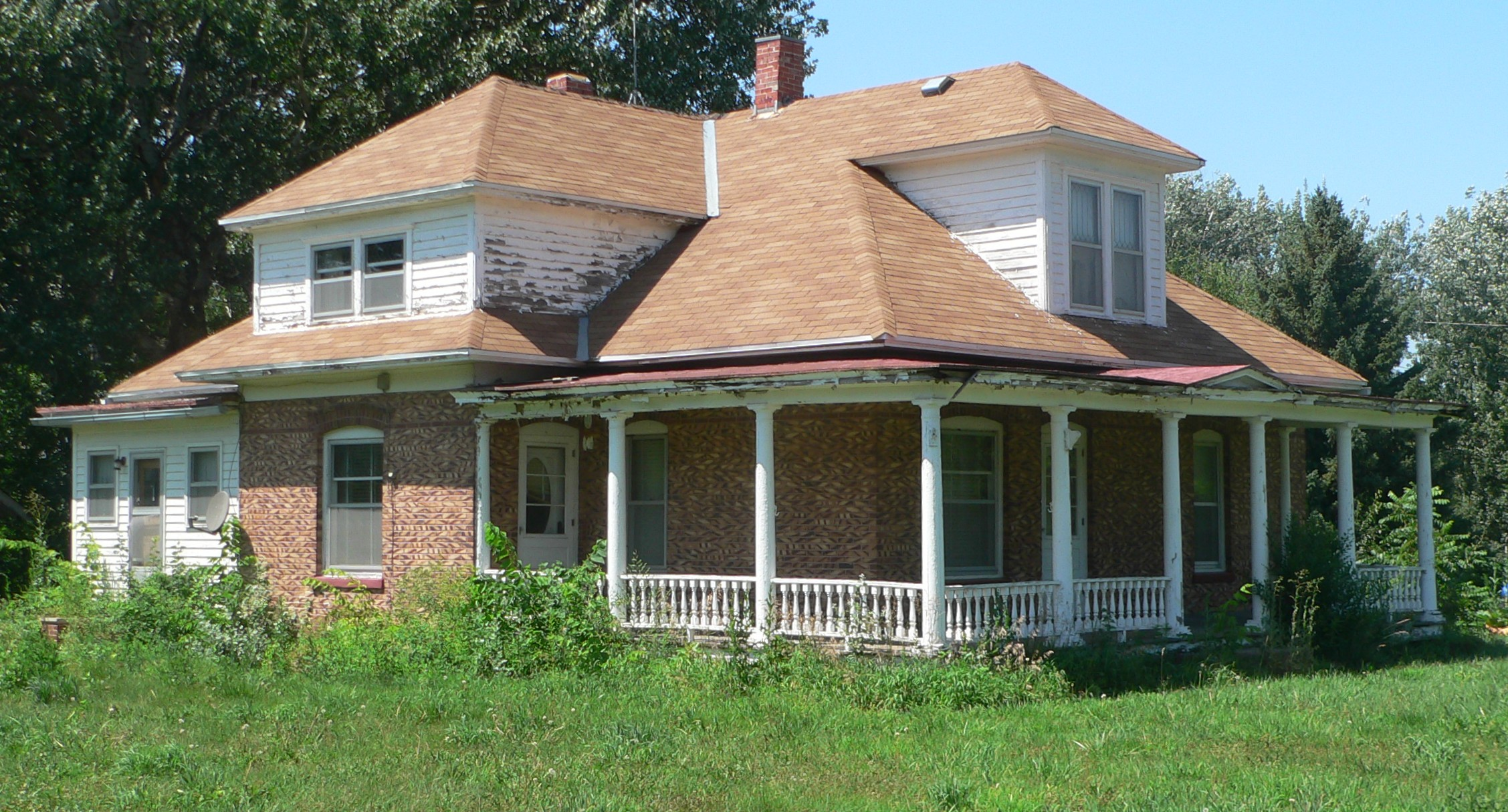 Van Osdel house in Mission Hill, South Dakota; seen from the southeast.